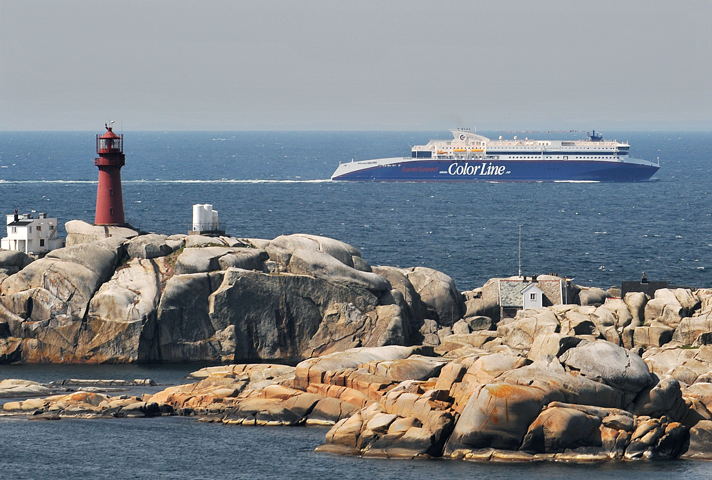 SuperSpeed 2 trafikkerer linjen Color Line betjener mellom Larvik – Hirtshals. SuperSpeed 2 sailes on the route Color Line operate between Larvik – Hirtshals. Photo: Color Line